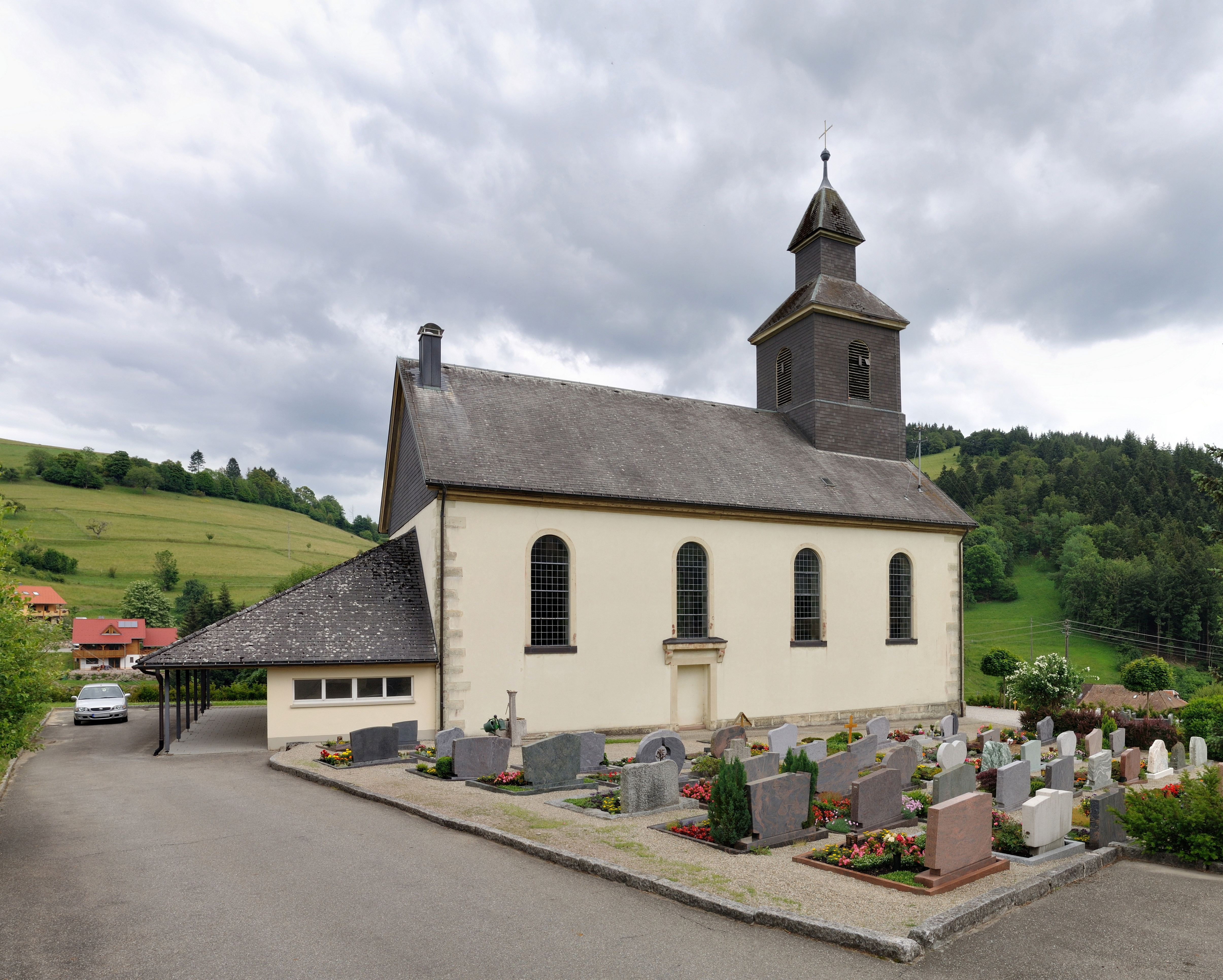 Neuenweg: Protestant Church